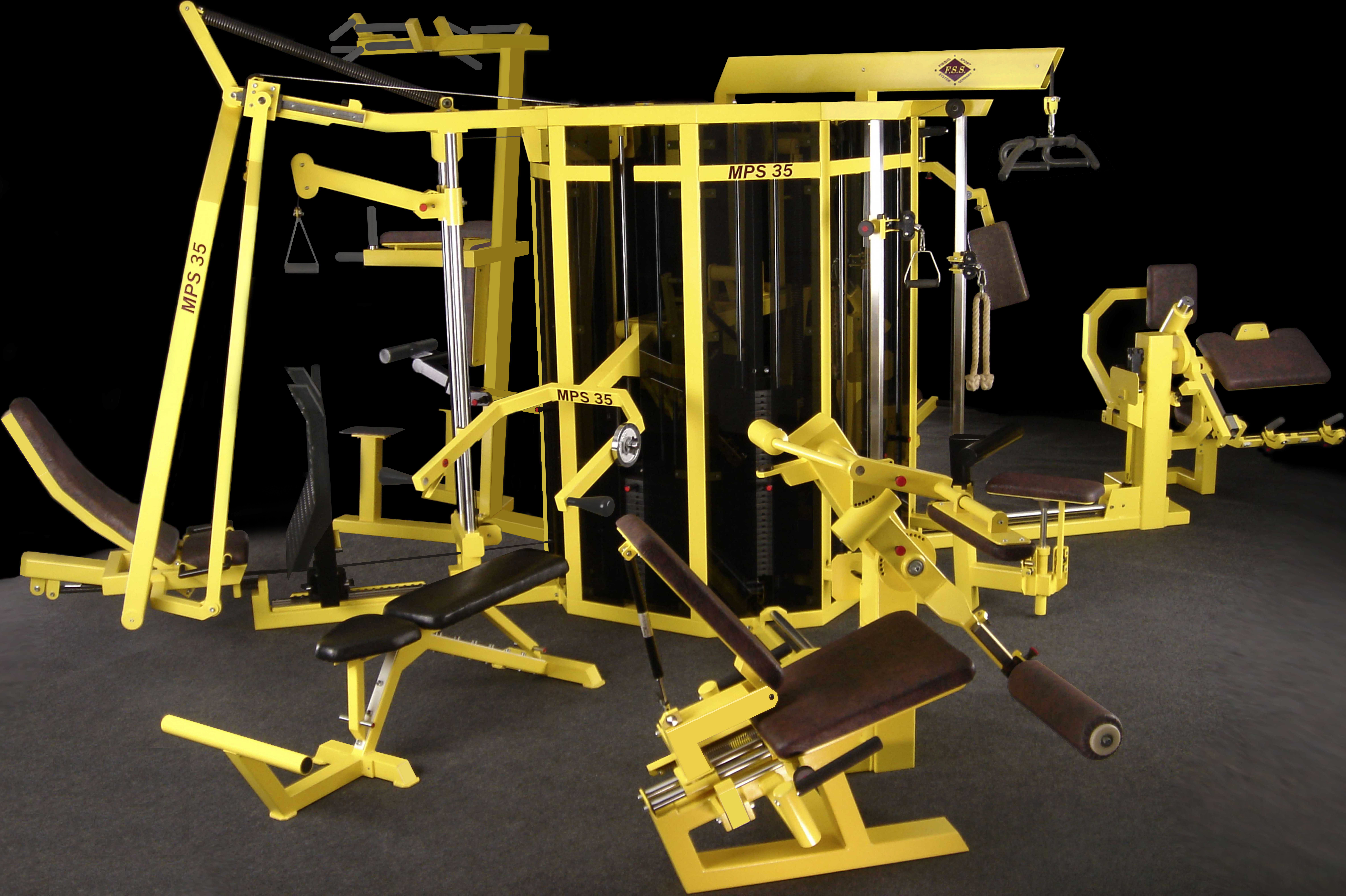 Fitness centre Multipowerstation MPS 35